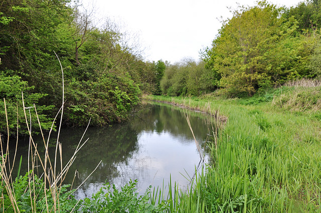 River Kenson at Burton Bridges Idyllic as it appears, this stretch of the river is quite heavily polluted and there is little if any hope of seeing a Kingfisher at this point - unless it is passing through!